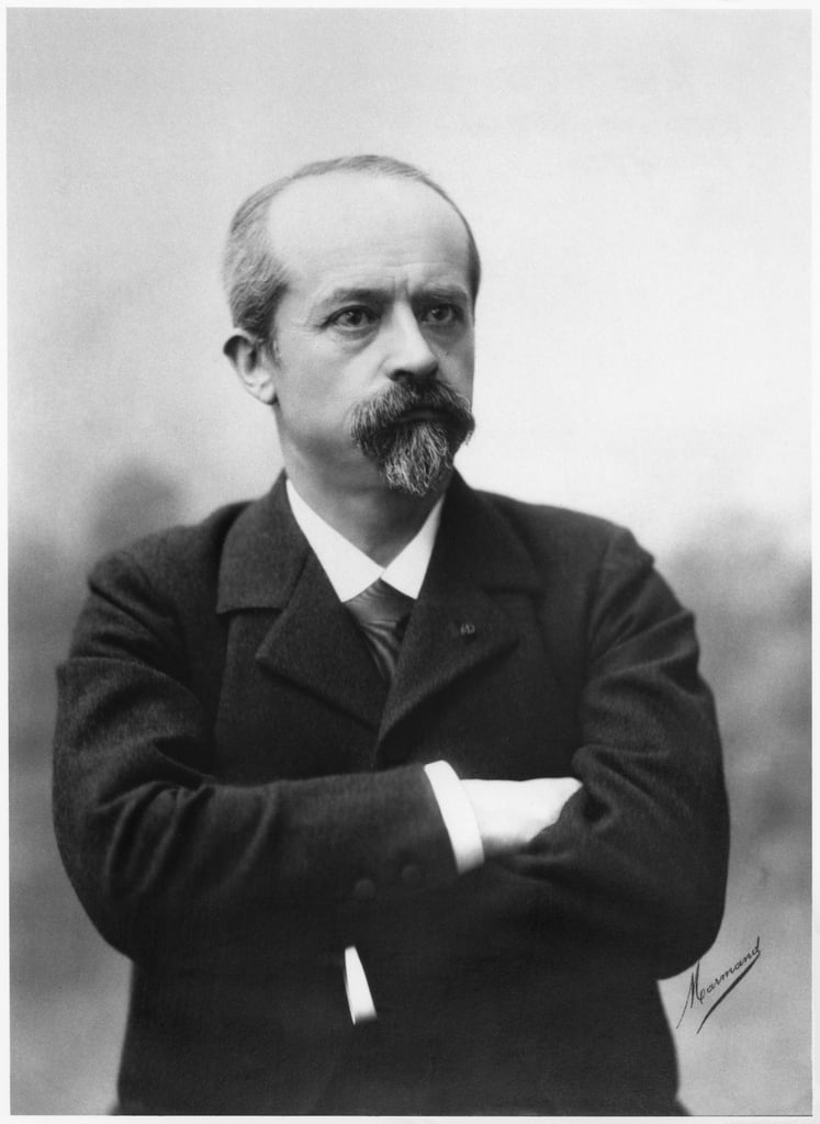 French politician, administrator and inventor Louis Lépine (1846-1933)